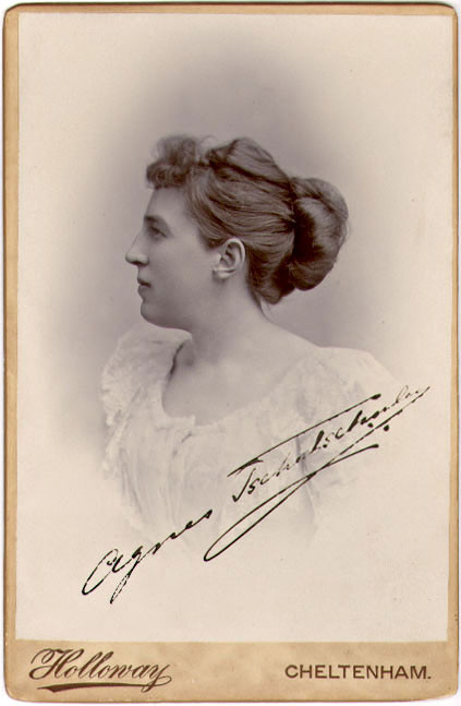 Signed photograph of the Finnish violinist, composer and pedagogue Agnes Tschetschulin (1859–1942).